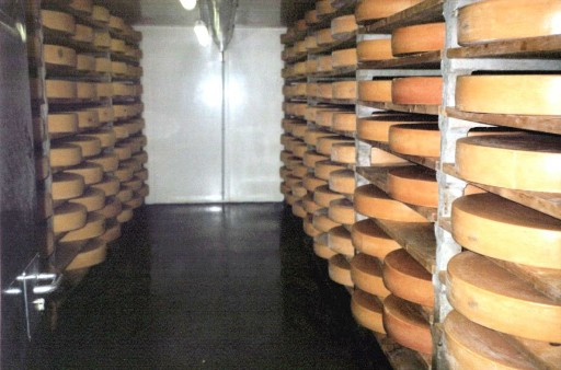 Swiss cheese being stored in a cellar in a small cheese dairy near St. Gallen. Taken in early 2000.